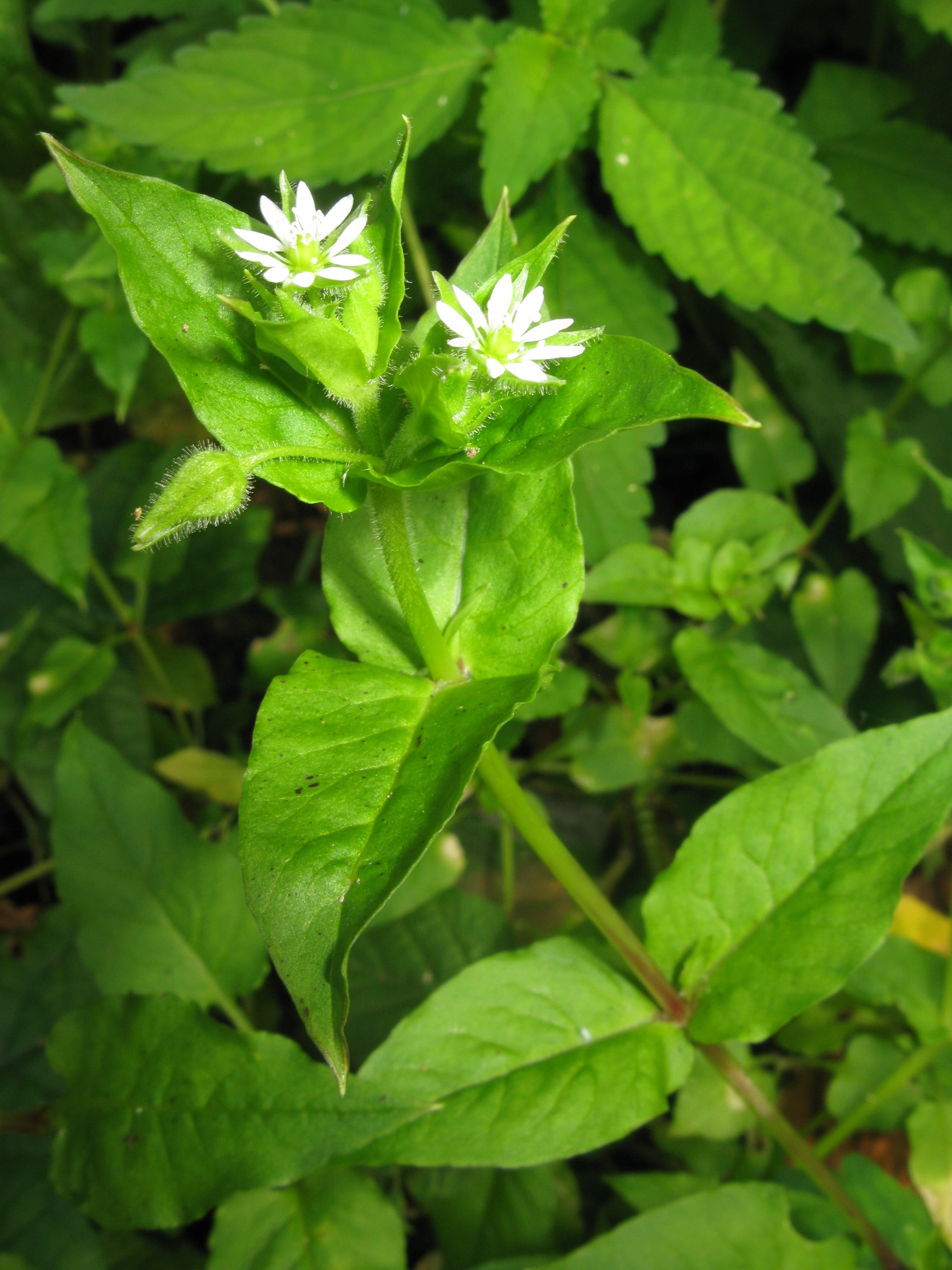 Stellaria aquatica, Aizu area, Fukushima pref.,Jpan